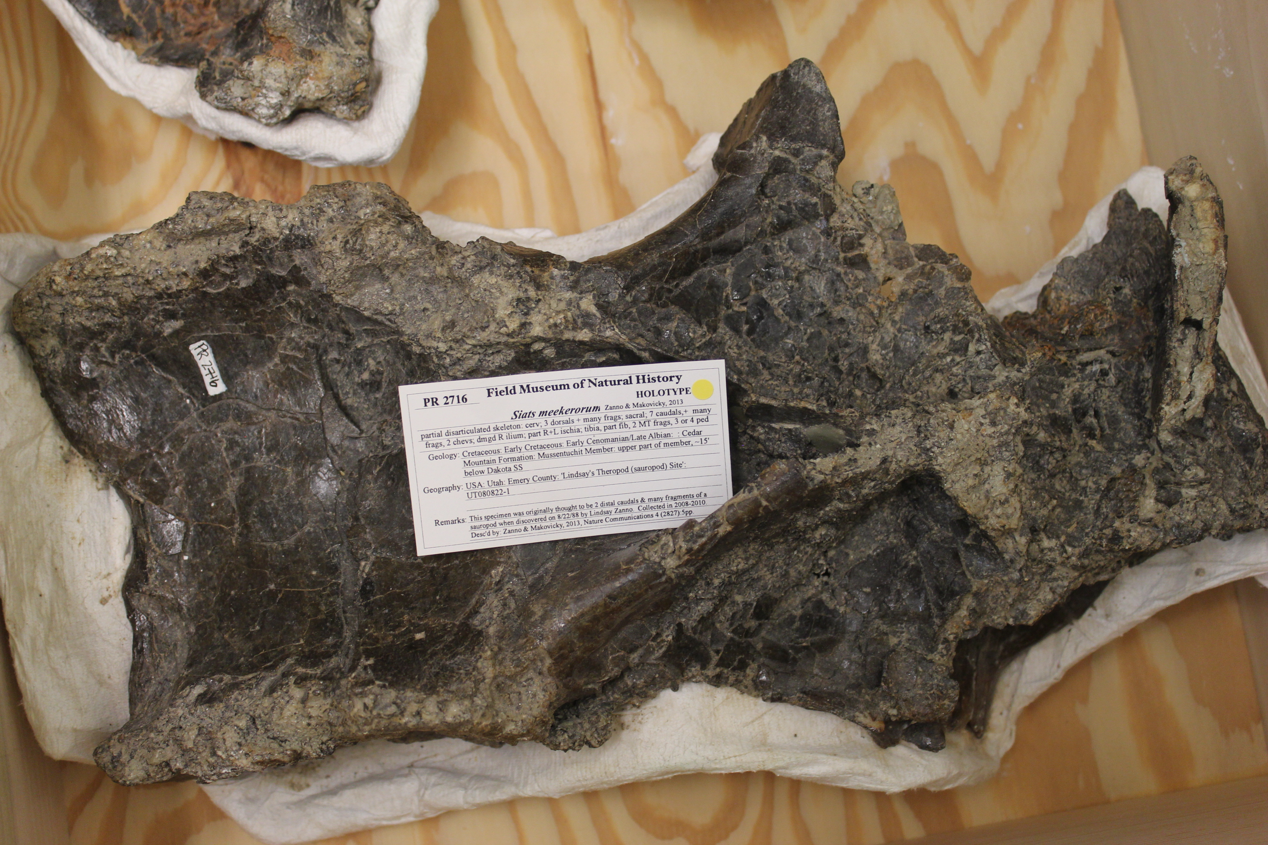 Cranial dorsal vertebra of Siats at the Field Museum of Natural History.